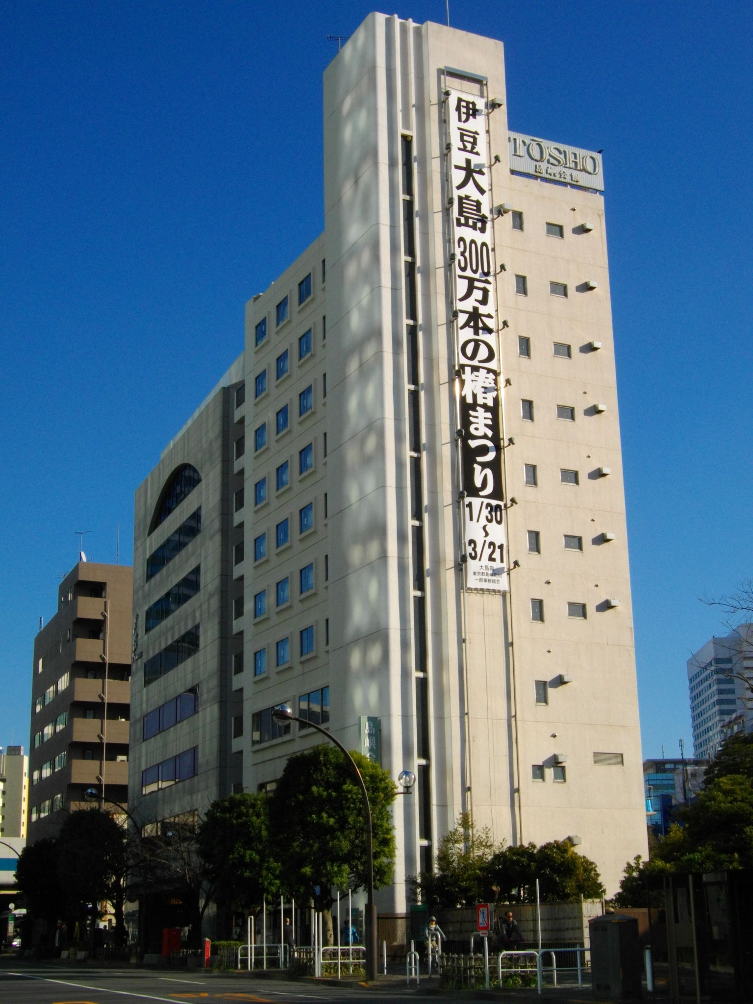 Tosho Kaikan Building